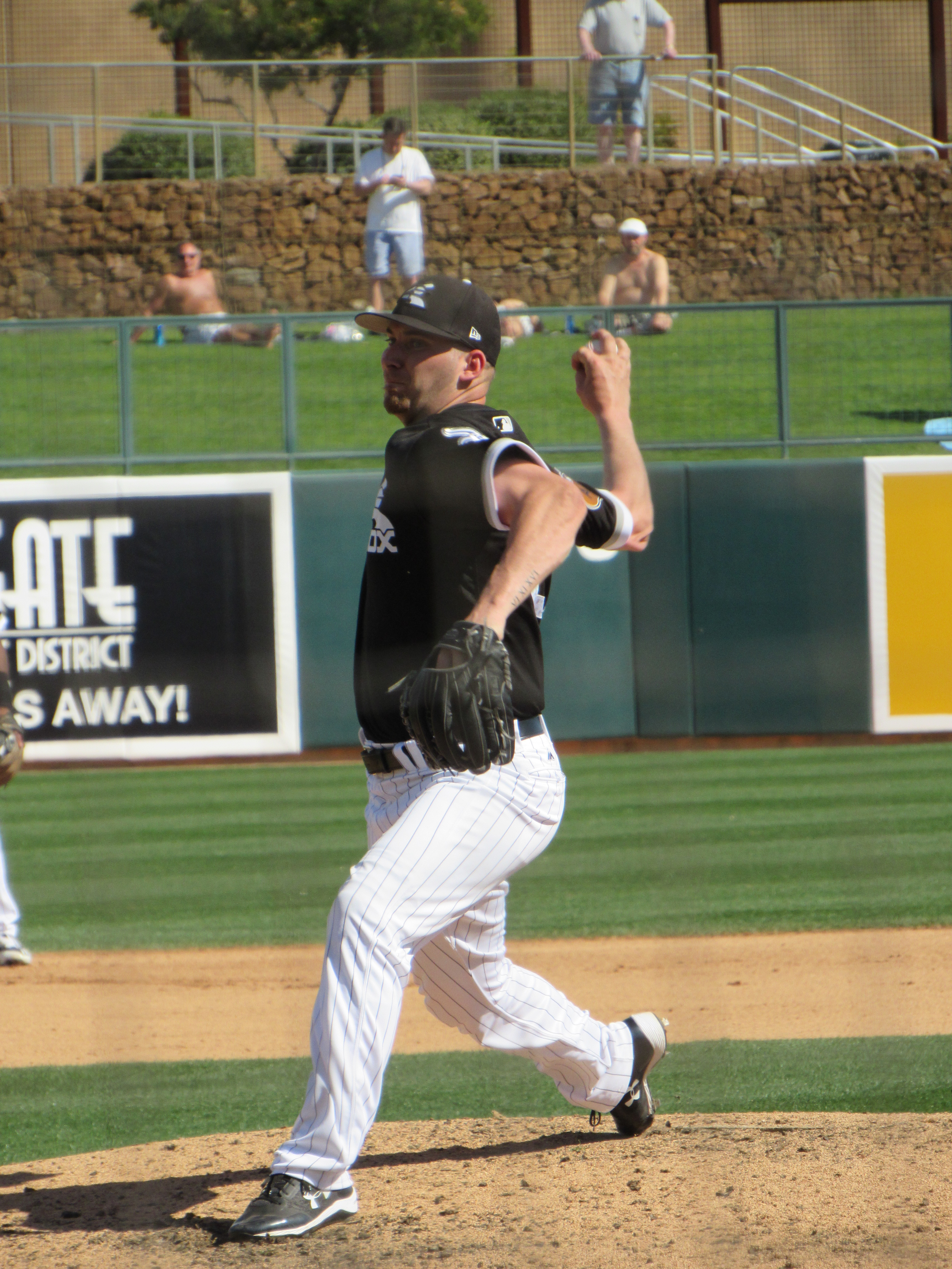 Tyler Danish pitching for the White Sox